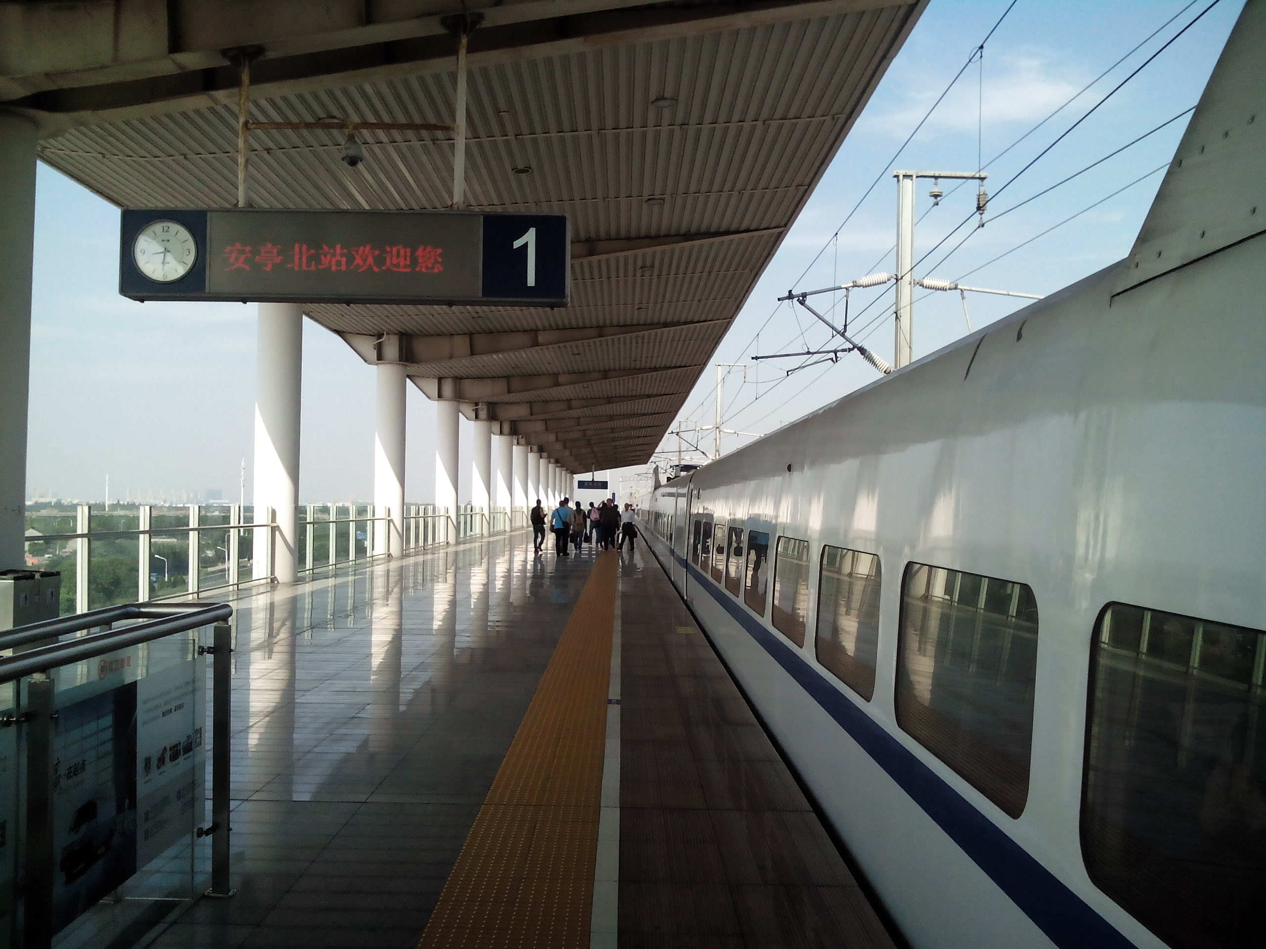 201510 Platform 1 of Antingbei Station